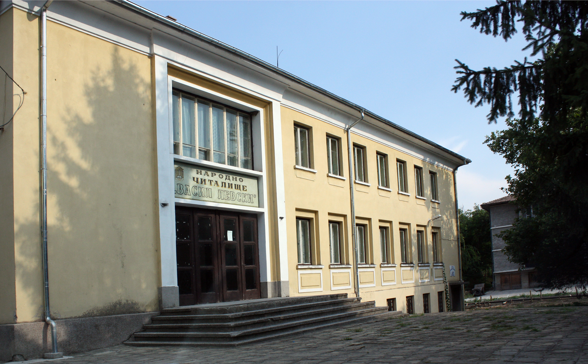 Chitalishte (culture club) in Prisovo